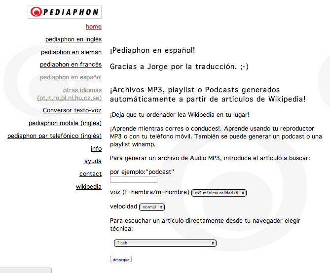 How to use Pediaphon